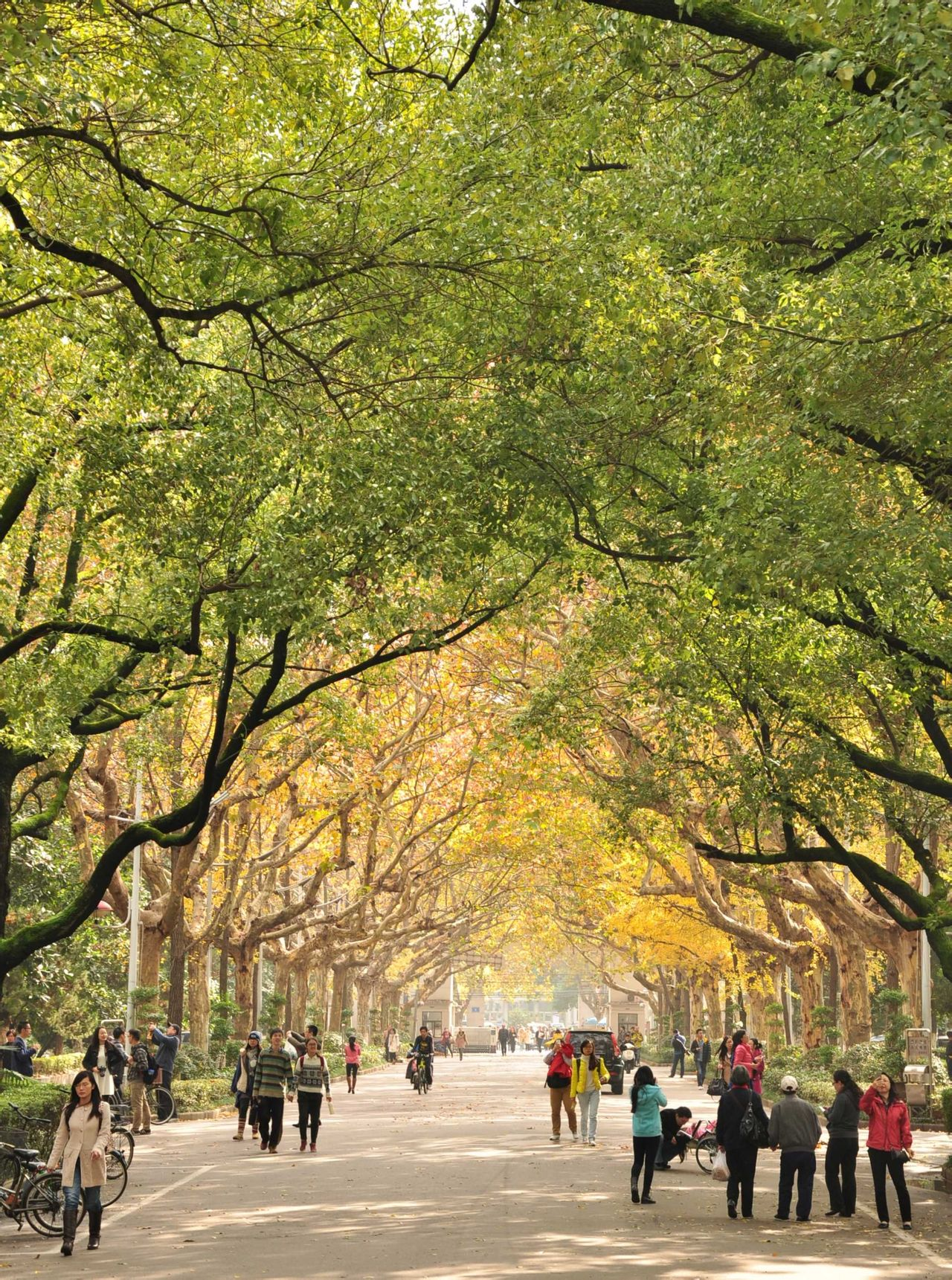 Autumn in Nanjing University, Gulou Campus